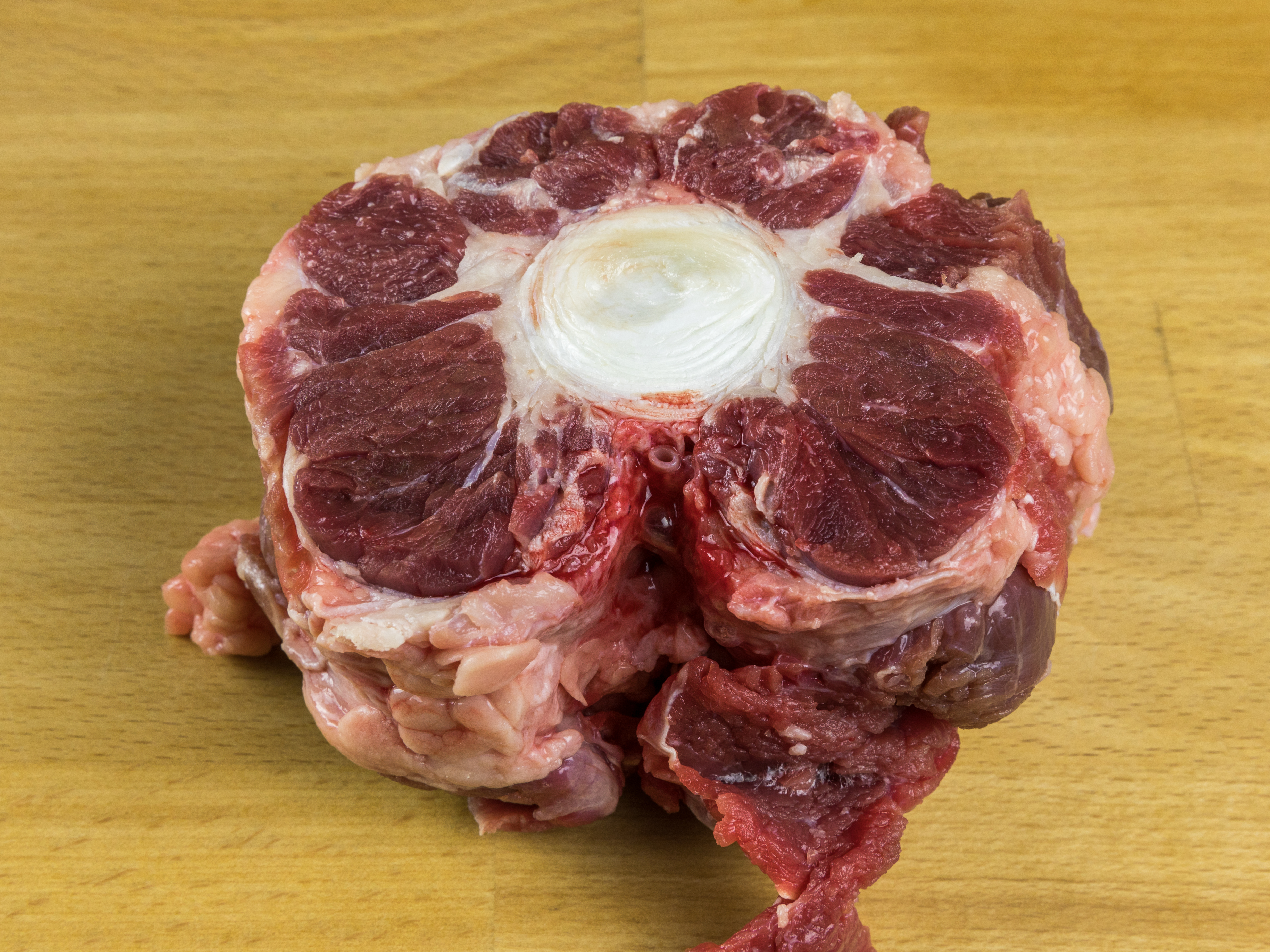 Oxtail